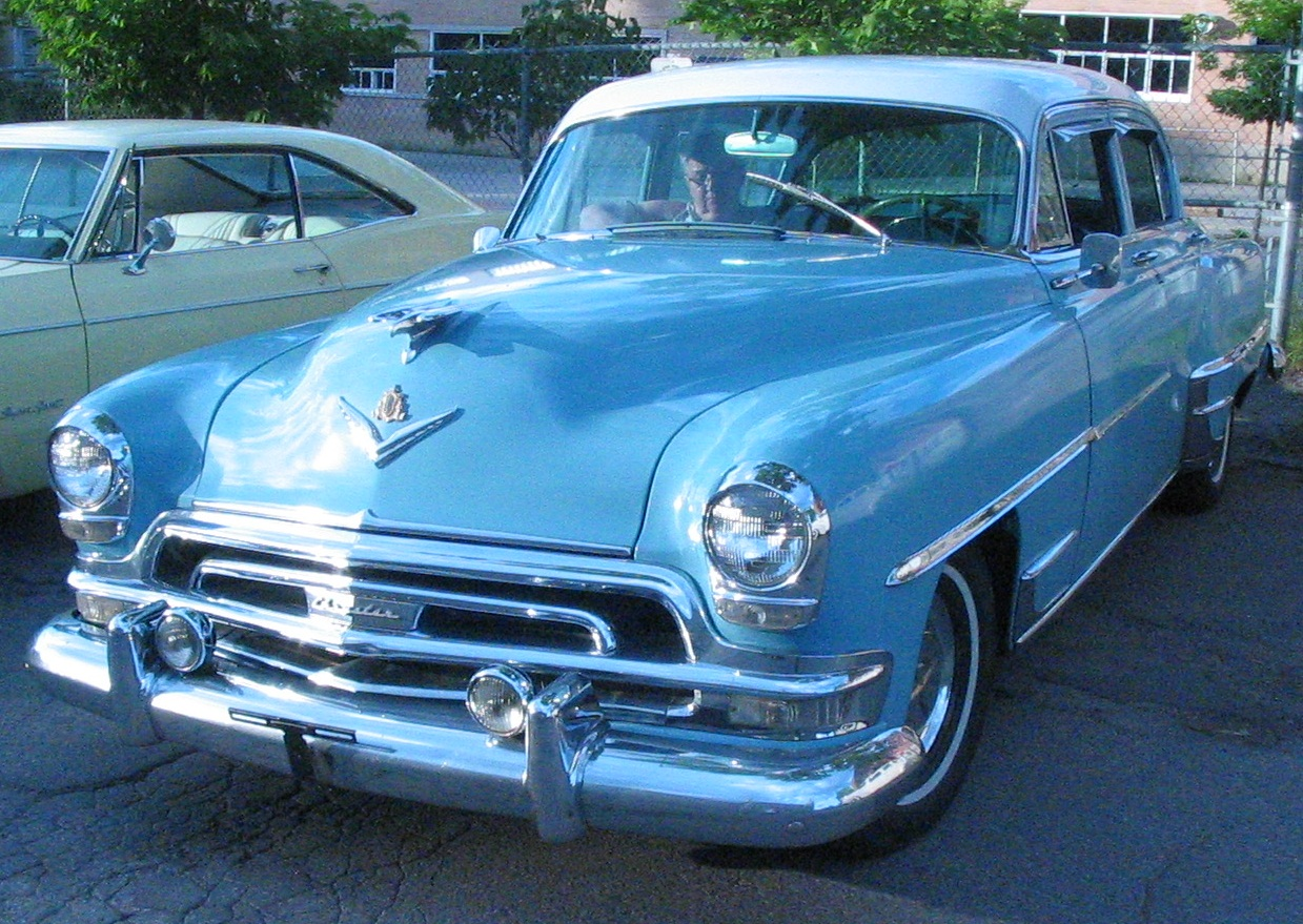 1954 Chrysler New Yorker photographed in Laval, Quebec, Canada at the Auto classique Ste-Rose.